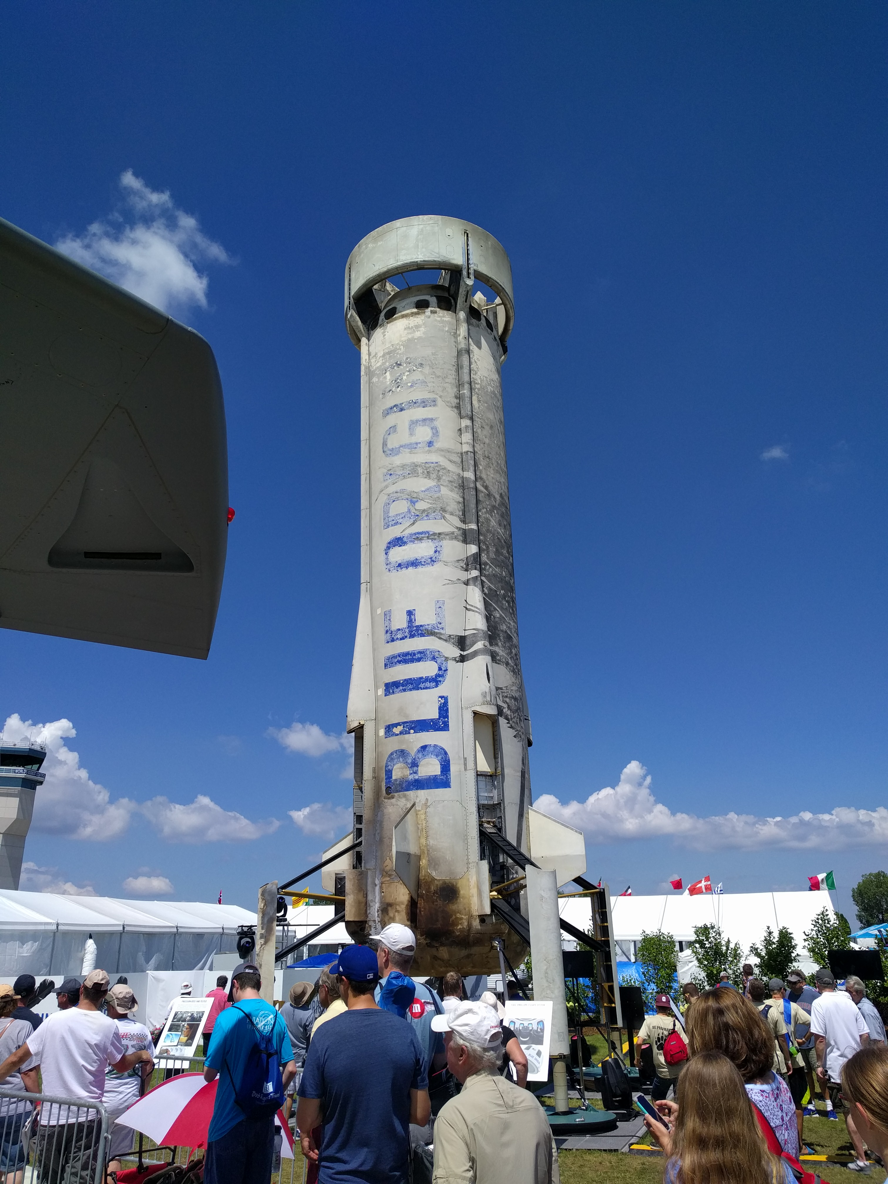 Blue Origin's New Shepherd, as seen at the 2017 EAA in Oshkosh